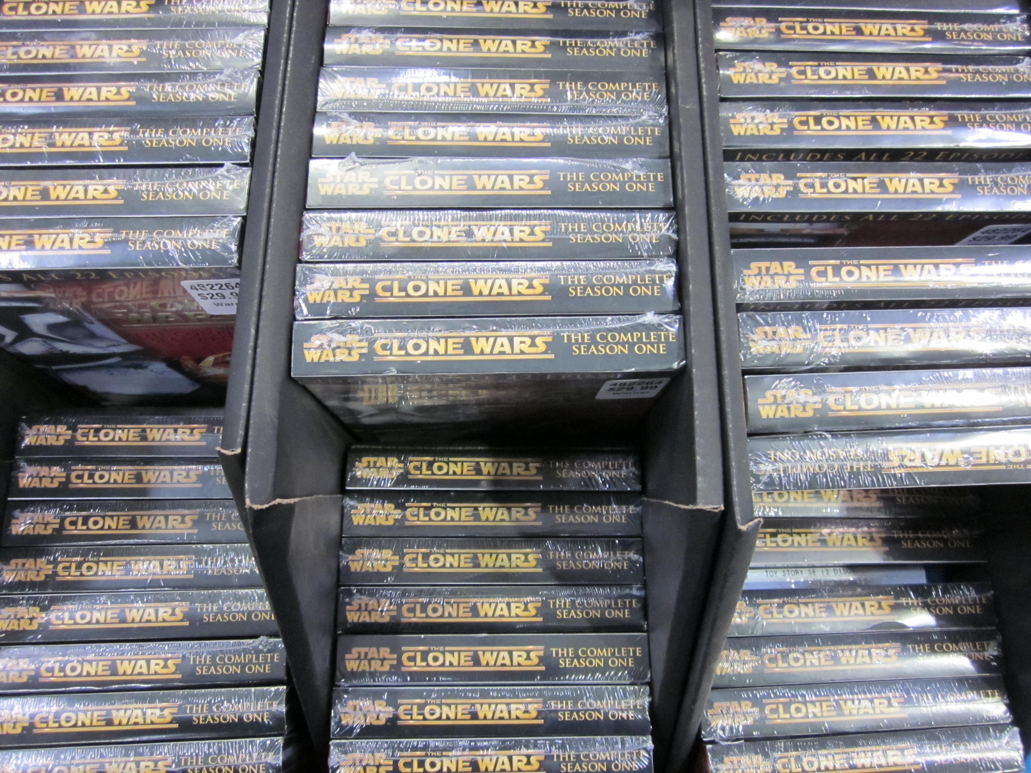 DVD box sets of season 1 of Star Wars: The Clone Wars at Costco in South San Francisco, California on El Camino Real.